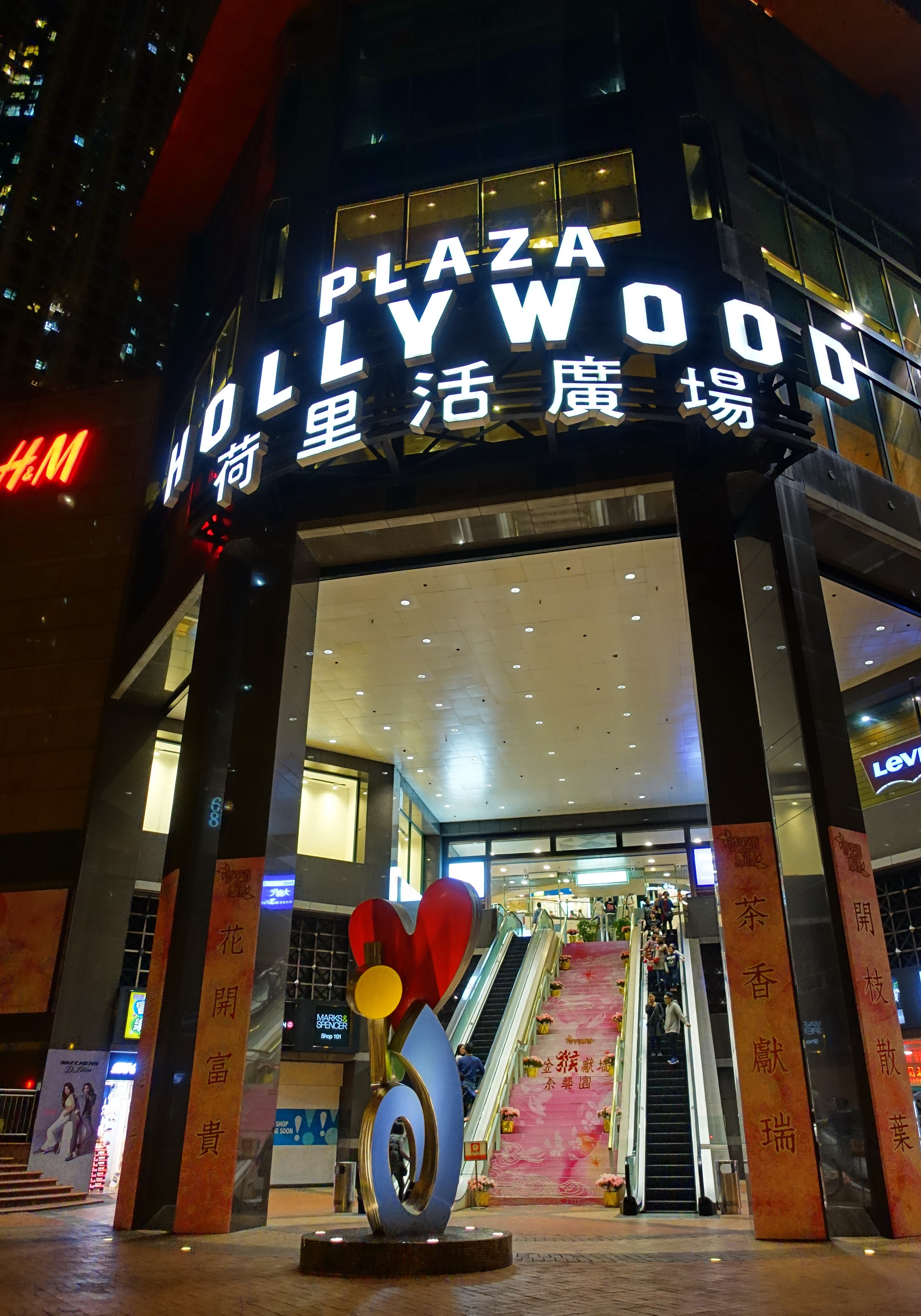 Lung Poon Street entrance, Plaza Hollywood, Diamond Hill, Kowloon, Hong Kong.